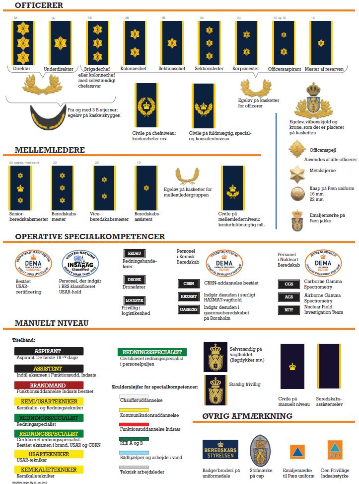 Rank insignia for the Danish Emergency Management Agency, 2017